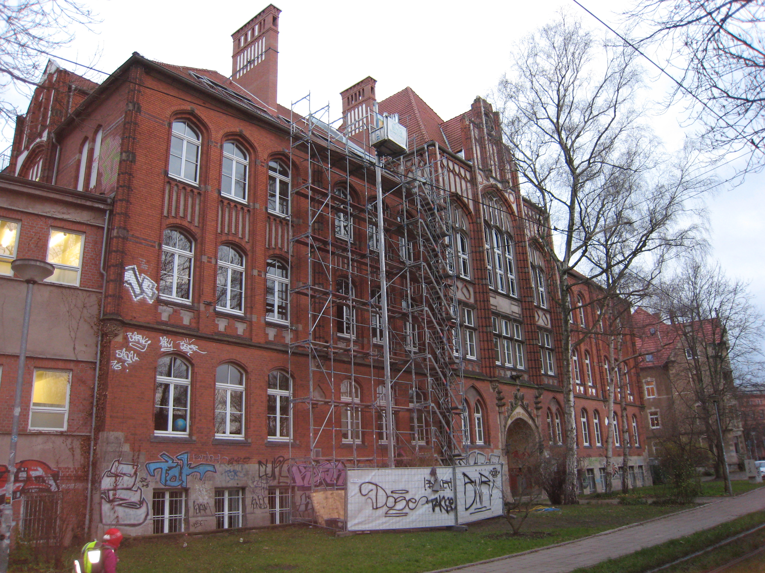 Königin Luise Schule Erfurt 3